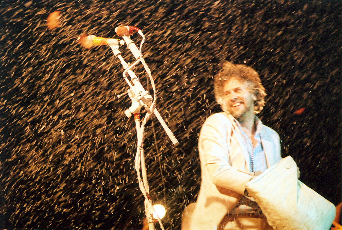 Wayne Coyne from The Flaming Lips, Street Scene Festival, San Diego, CA - July 30, 2005.